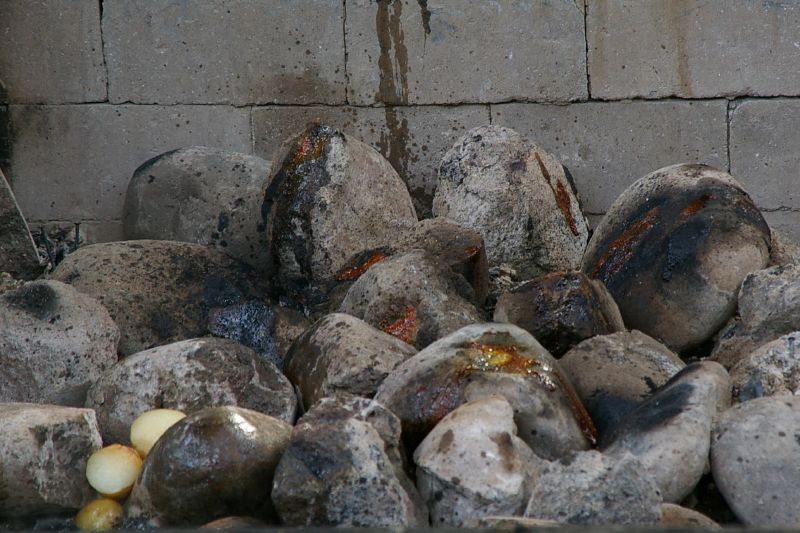 Rotarua Maori Experience - Hangi hot rocks with spuds that fell through